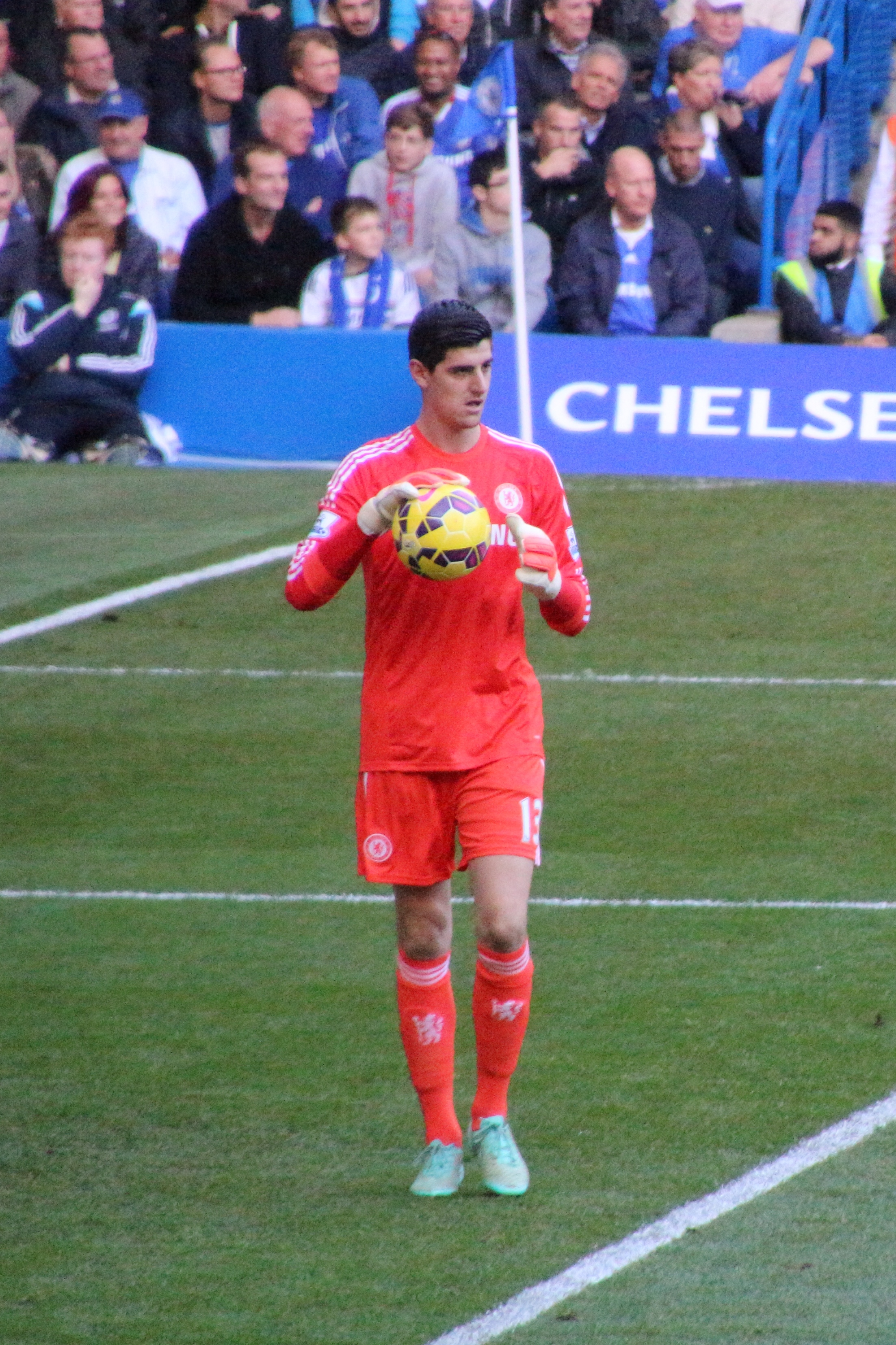 Chelsea 2 QPR 1 Premier League match between Chelsea and Queens Park Rangers at Stamford Bridge on 1 November 2014.